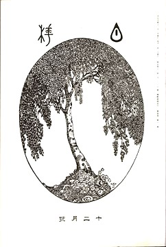 Cover of Shirkaba journal 3 1912